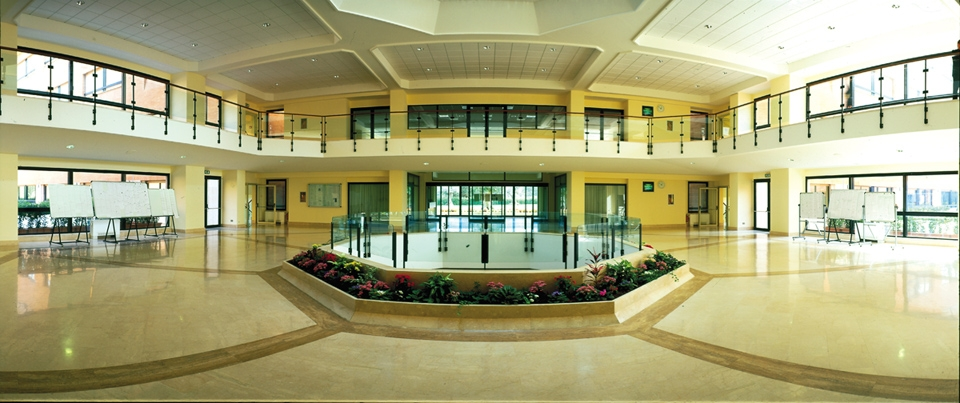 Picture of the inside of the Ateneo Pontificio Regina Apostolorum in Rome, Italy, sponsored by the Legion of Christ.